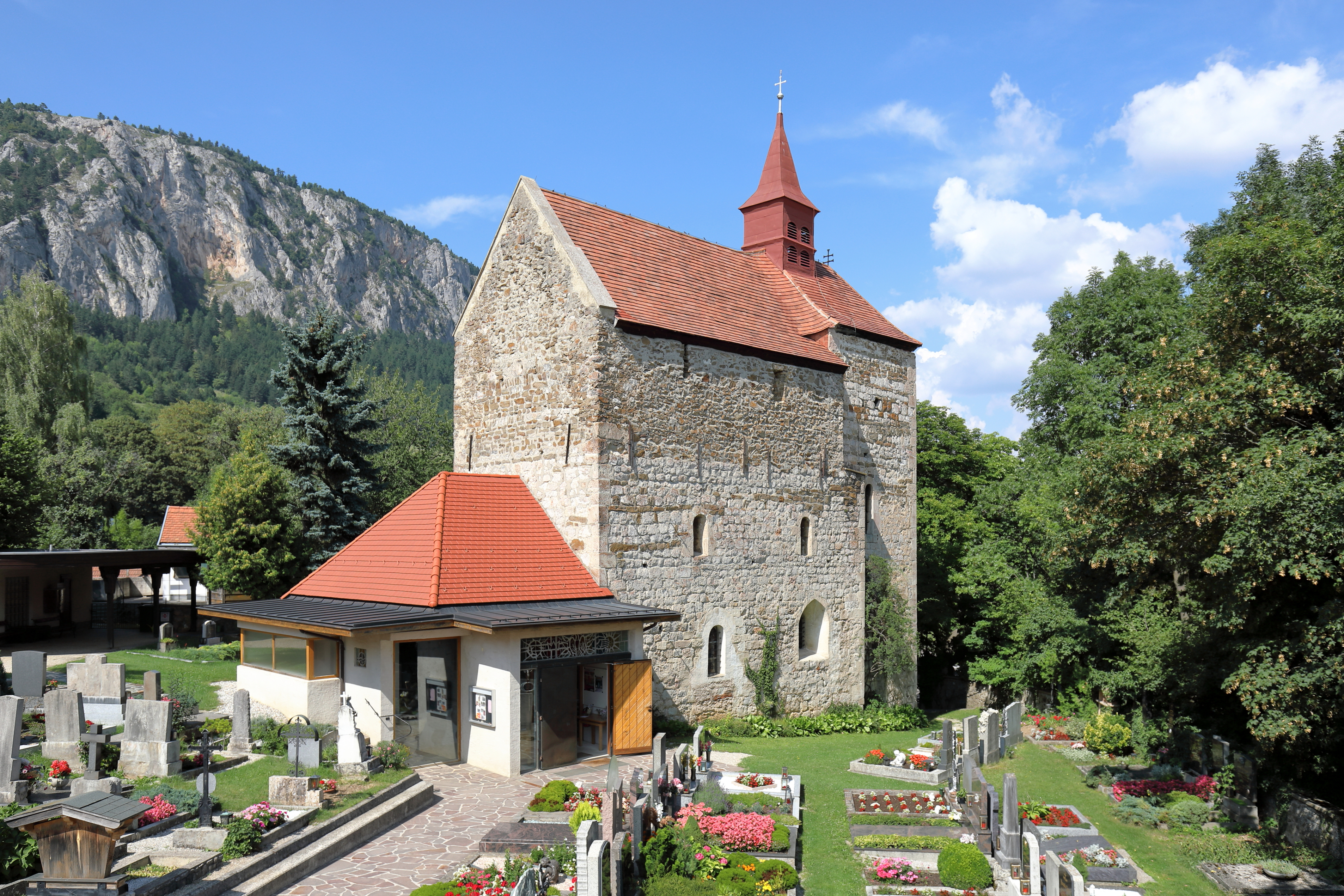 The parish church in Maiersdorf, Hohe Wand, Lower Austria, Austria